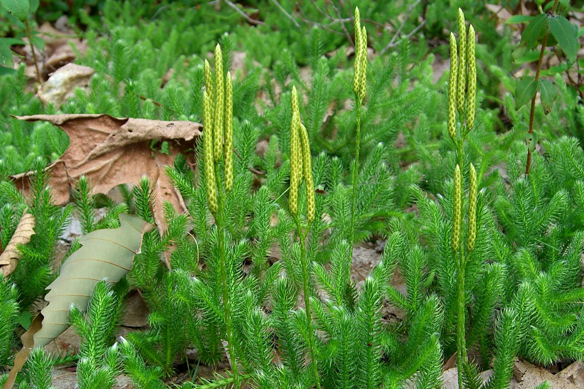 Scientific Name: Lycopodium clavatum L. Common Name: Running Club-Moss Certainty: positive (notes) Location: Appalachians; Shenandoah Mt Date: 20060730